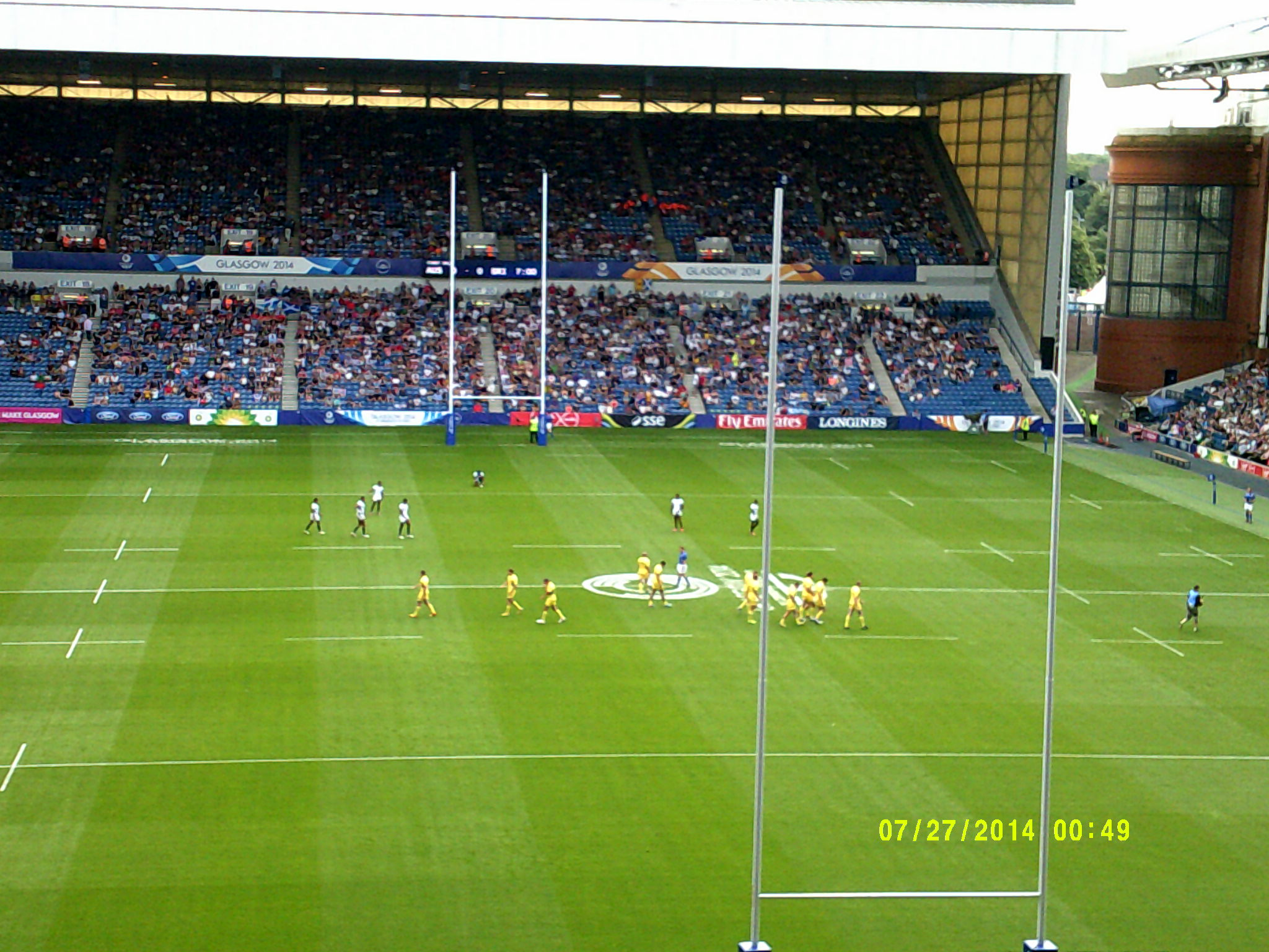 Australia sevens teams playing Sri Lanka.